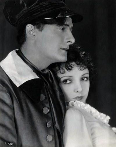 Gaston Glass and Nina Quartero in The Red Mark - publicity still (cropped)